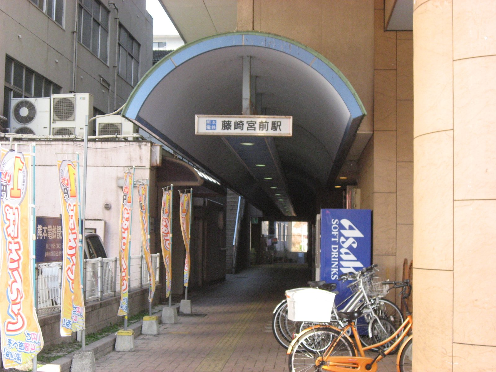 Fujisakigumae Station of Kumamoto Electric Railway